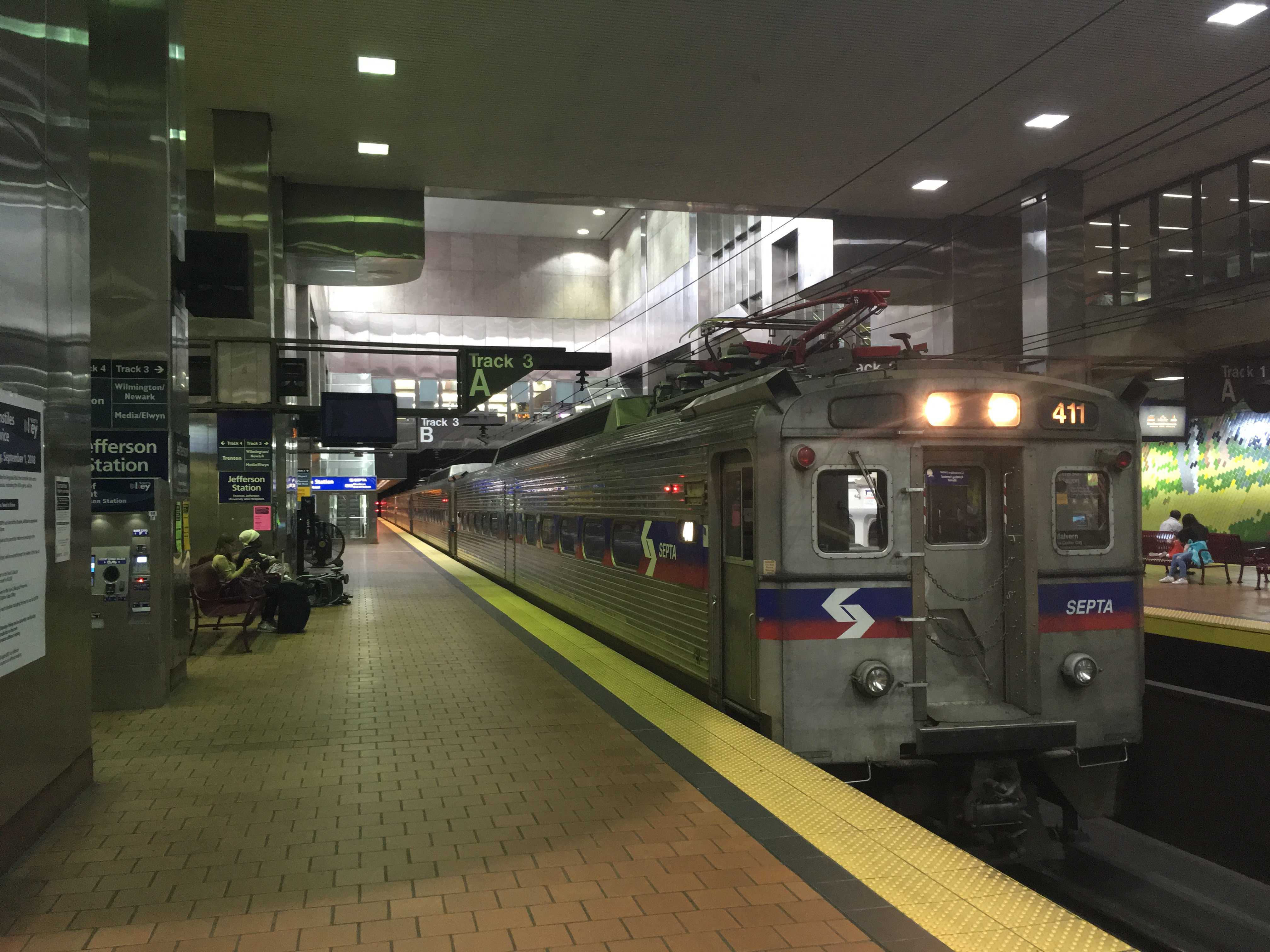 SEPTA Silverliner IV 411 leads an outbound Paoli/Thorndale Line train at Jefferson Station in Philadelphia, Pennsylvania